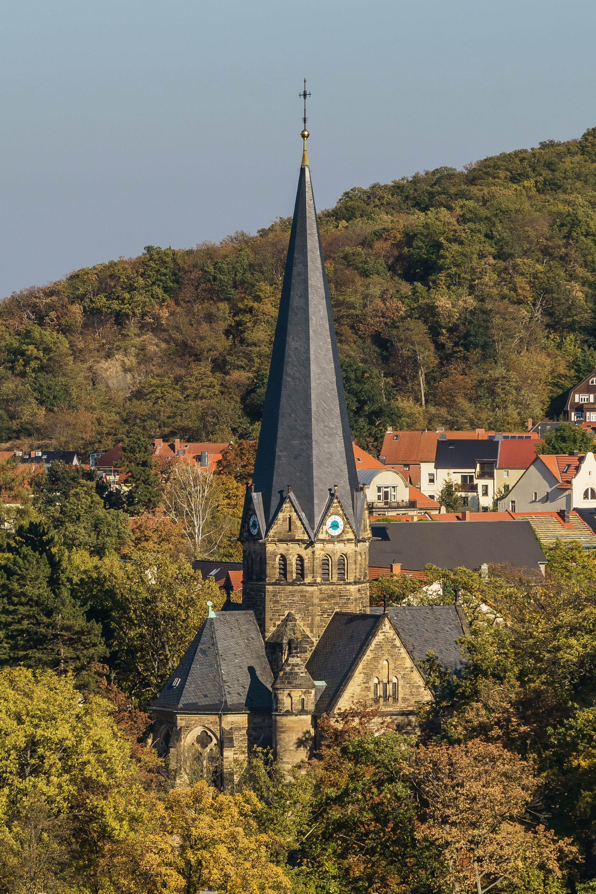 View from the chairlift in Thale, Germany